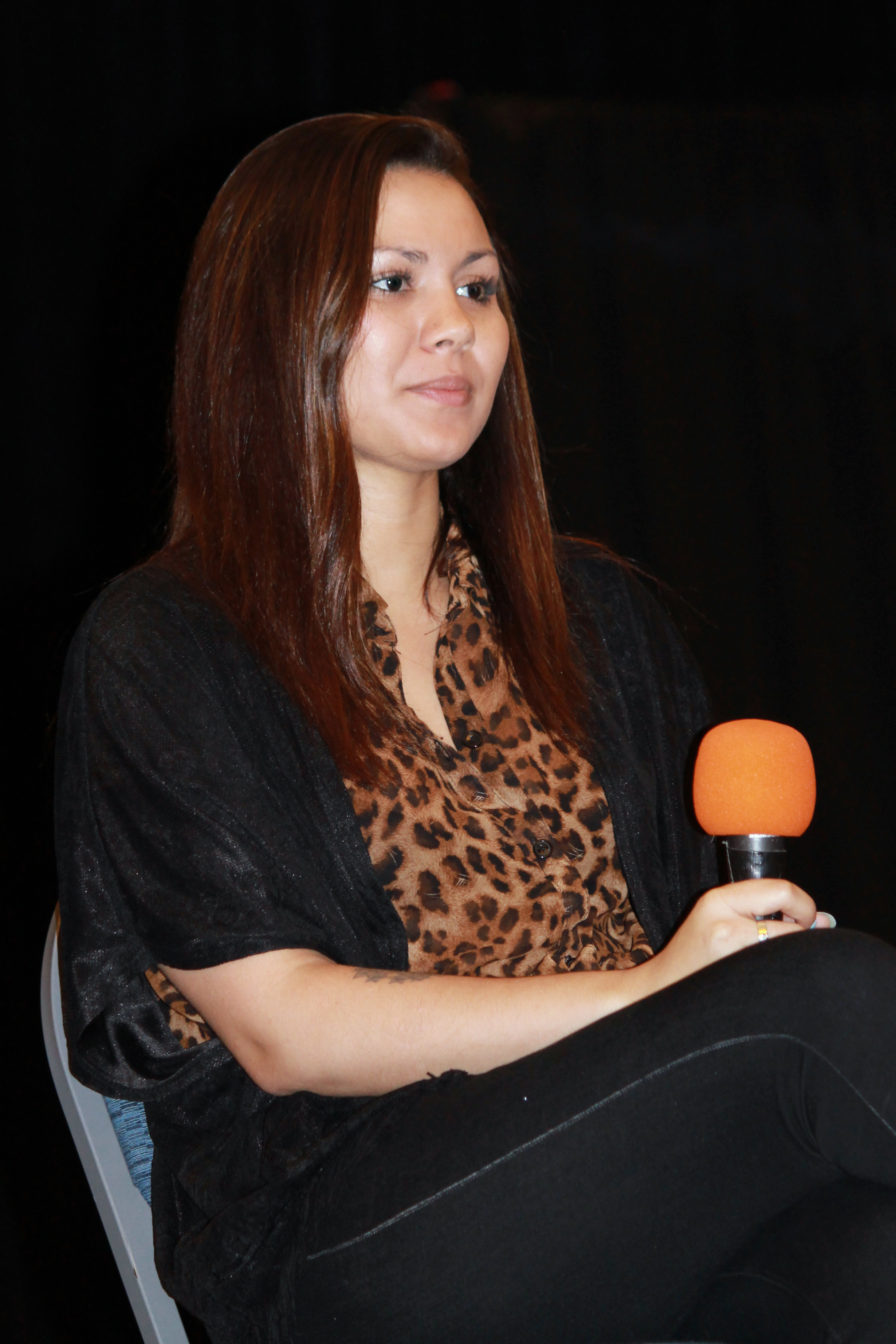 This is a cropped image of actress and singer Olivia Olson.